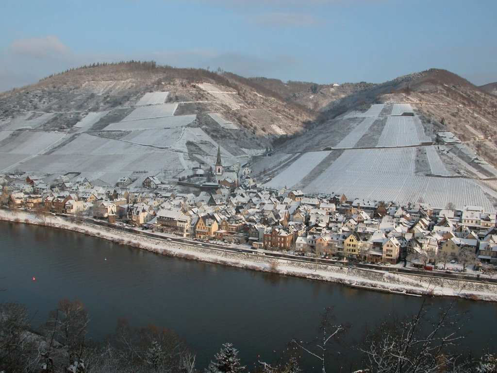 Ediger